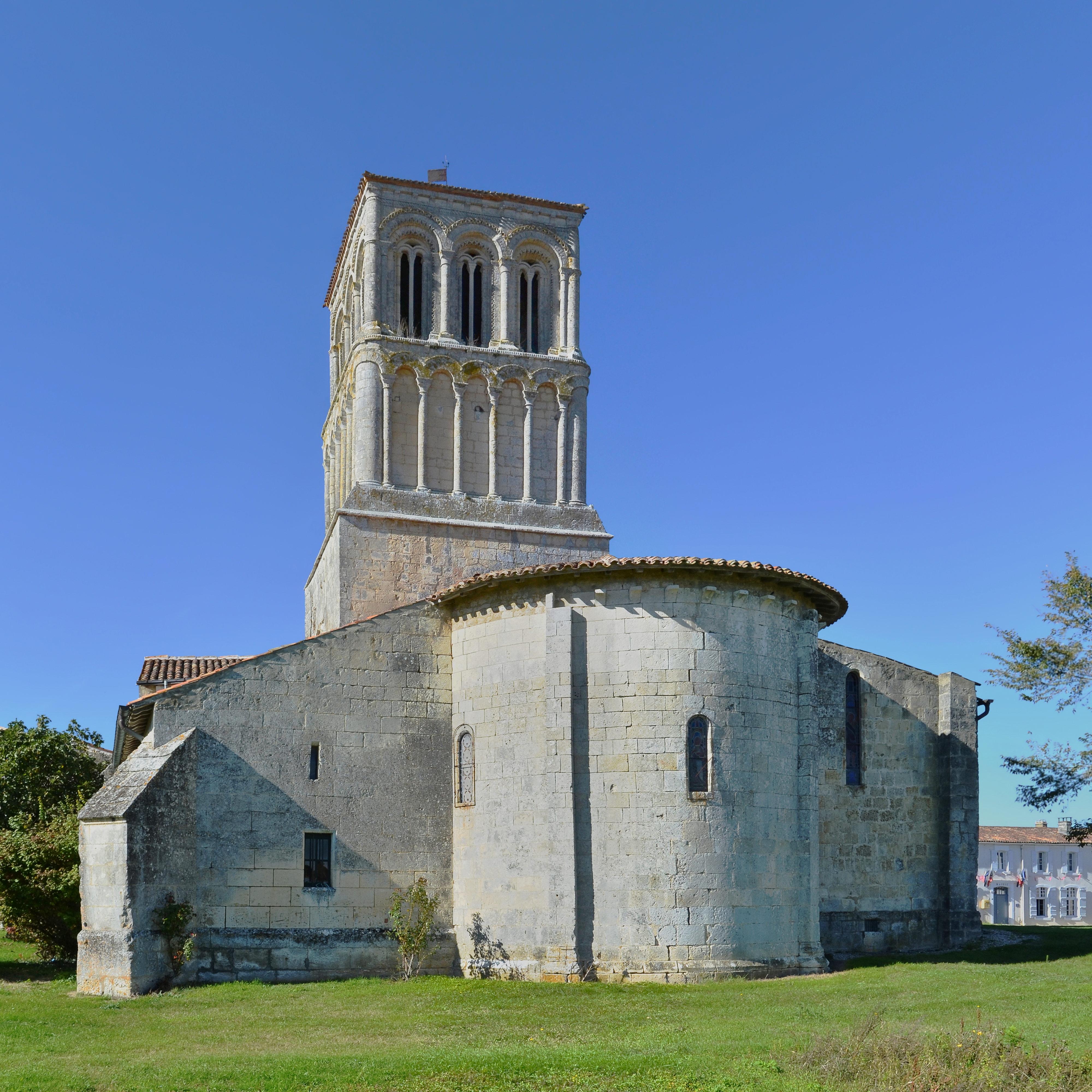 Church tower and apse, Thézac, Charente-Martitime, France.